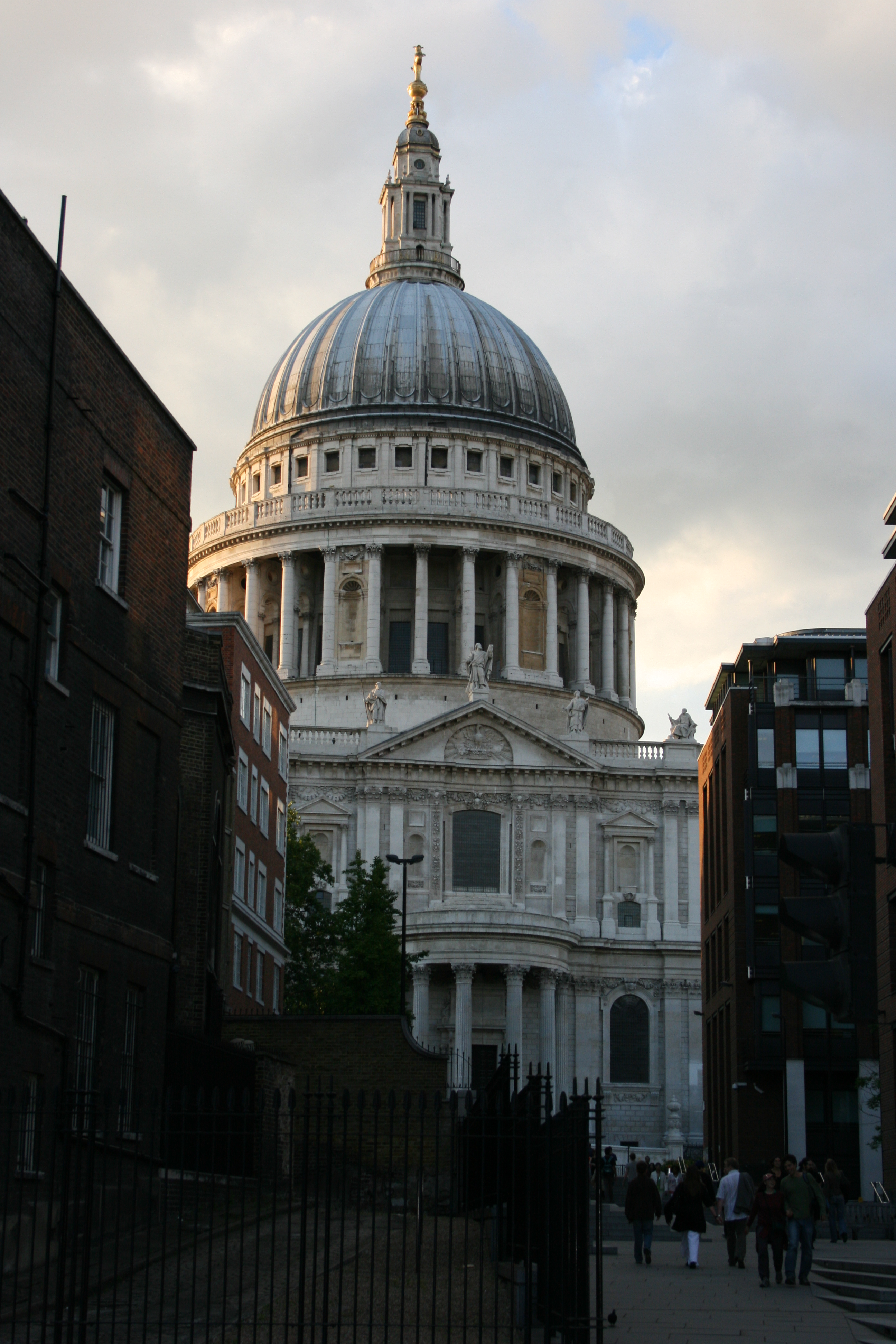 St. Paul's Cathedral Dome